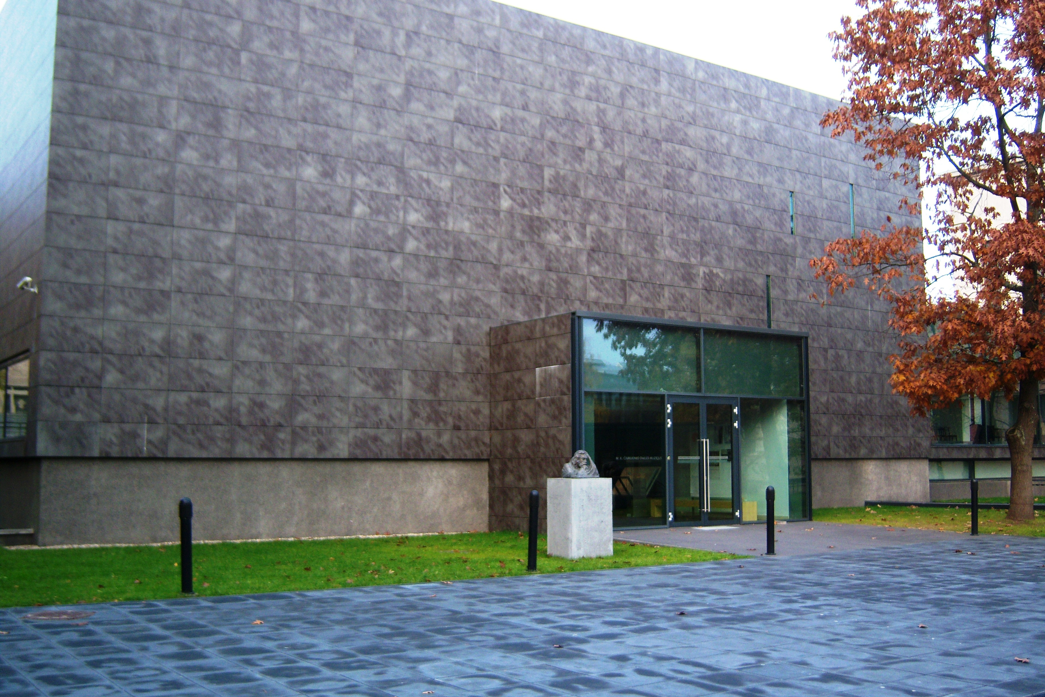 M. K. Čiurlionis National Art Museum, new exhibition building, Kaunas, Lithuania.